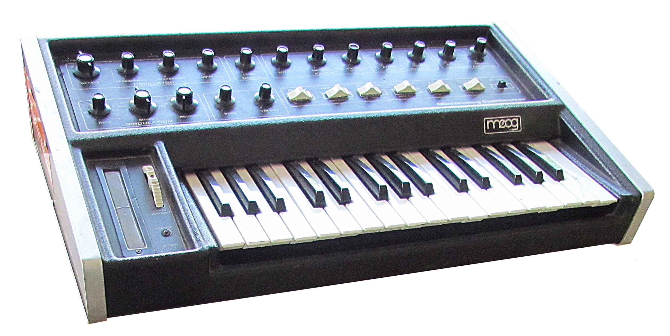 Micromoog